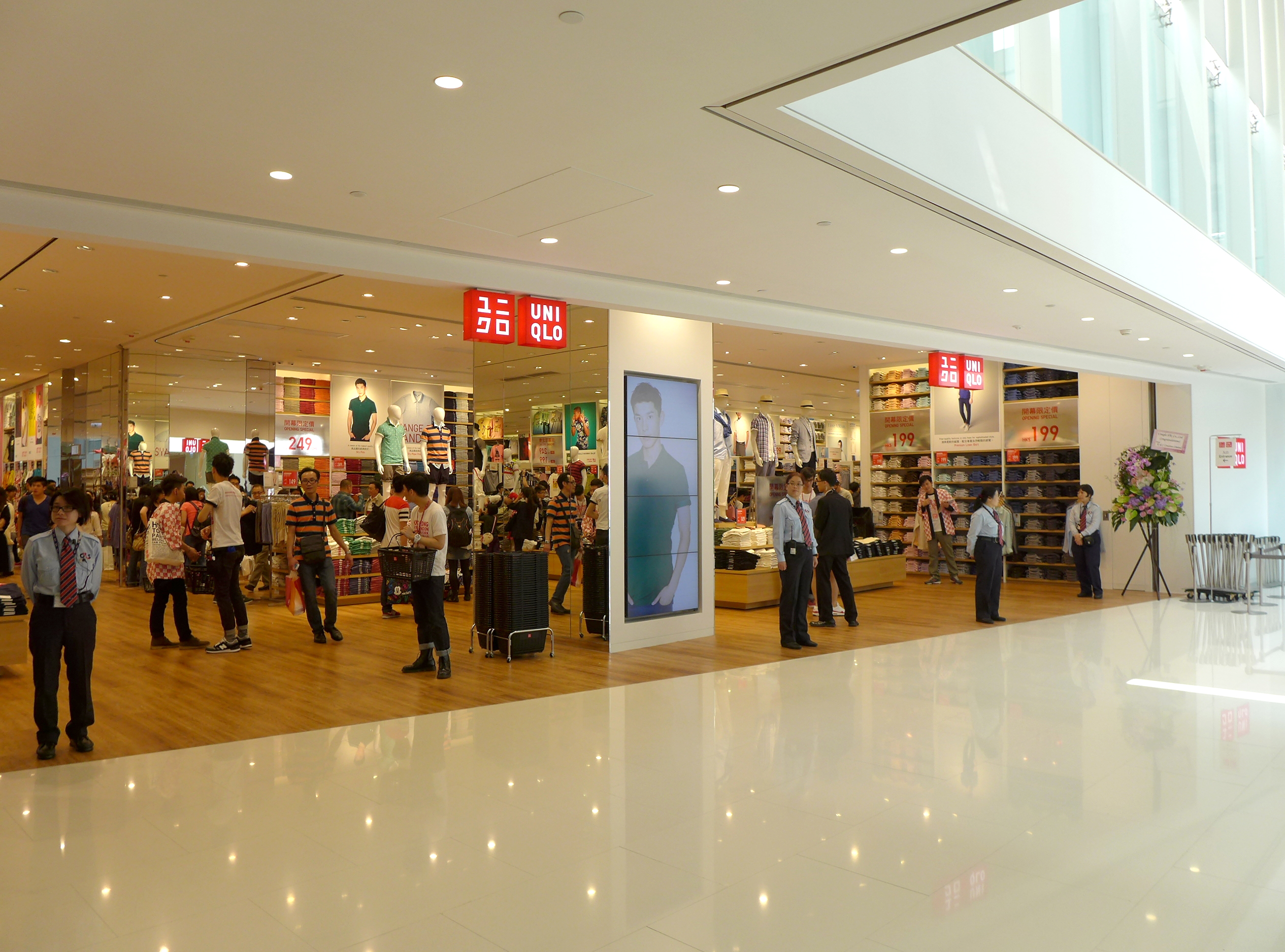 Harbour City Uniqlo